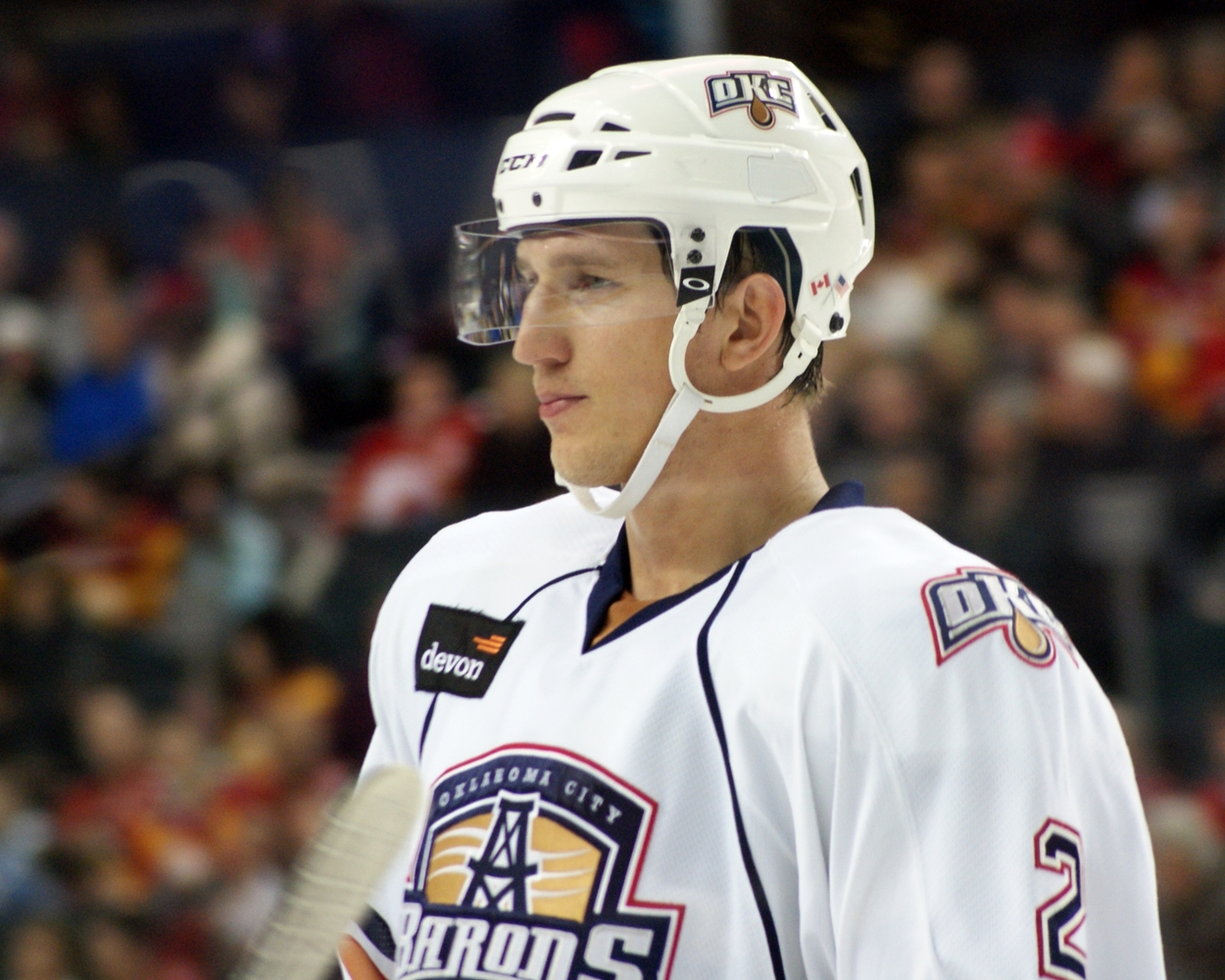 Richard Allan Petiot, born August 20, 1982 in Daysland, Alberta, is a professional ice hockey defenceman who was drafted by the Los Angeles Kings in the 4th round (116th overall) of the 2001 NHL Entry Draft. He has played in the National Hockey League (NHL) with the Los Angeles Kings, Tampa Bay Lightning, Edmonton Oilers. Photo was taken on February 18, 2011 during an American Hockey League (AHL) regular season game.